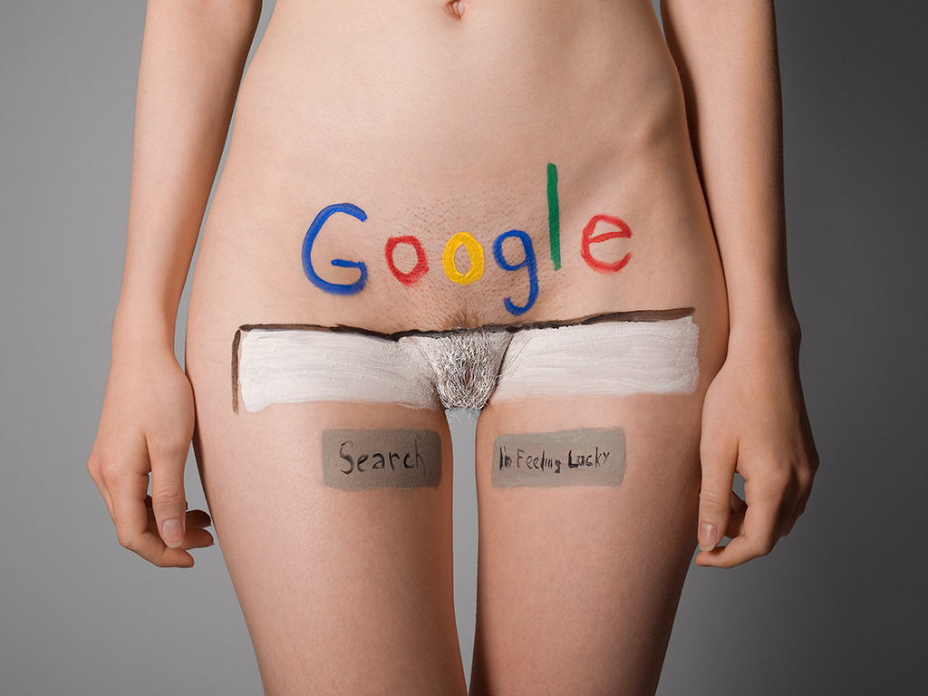 Search box of Google painted in female body.